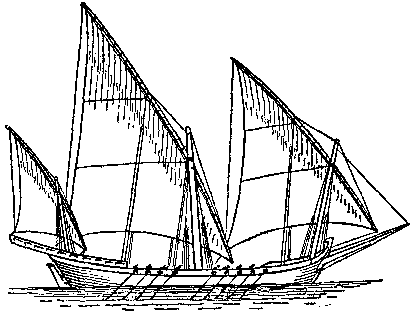 Lateen Rig; fig 6 from article on rigging, 1911 enc. brit.